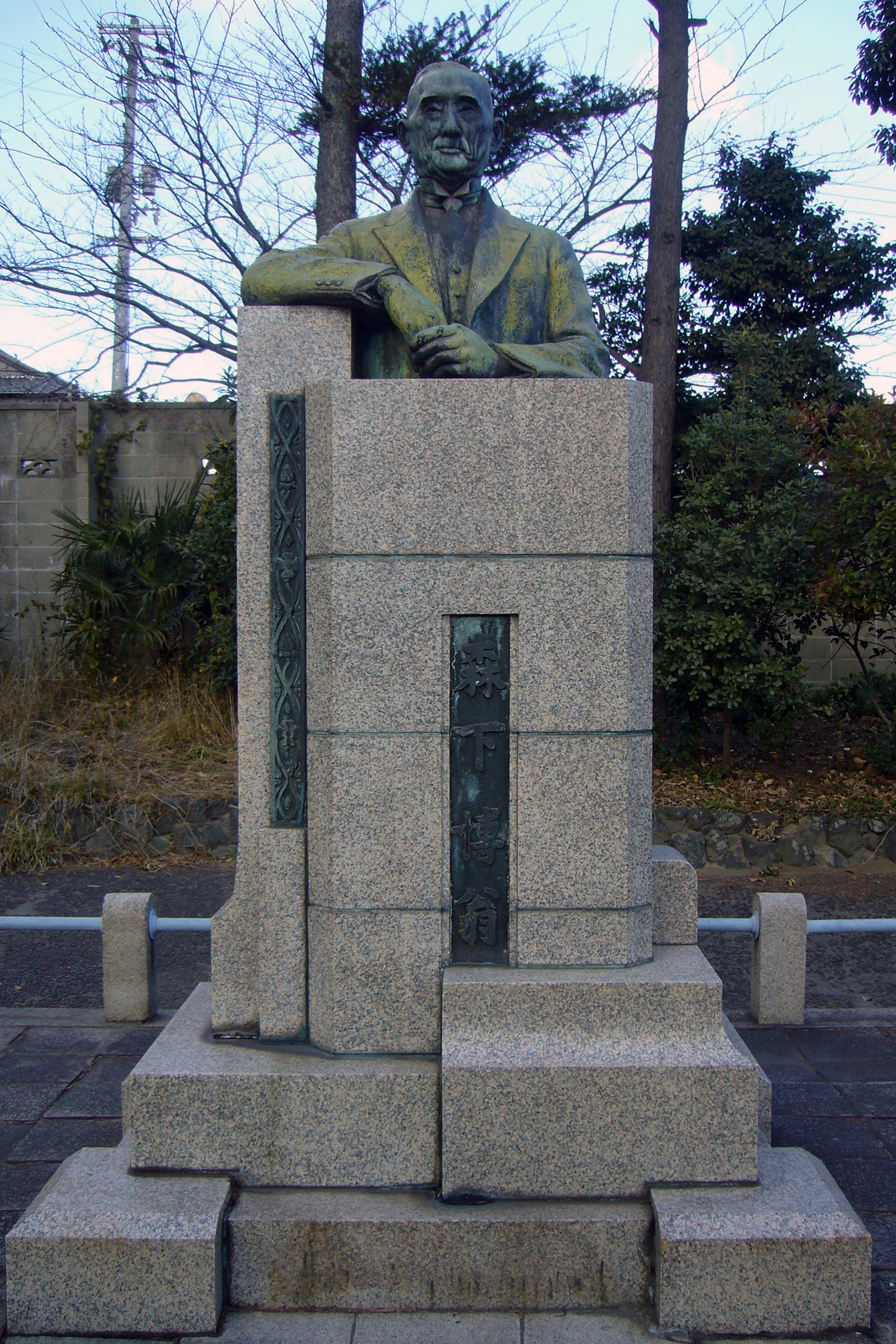 Statue of Hiroshi Morishita, the founder of Morishita Jintan, at Nunakuma-jinja in Fukuyama, Hiroshima prefecture, Japan